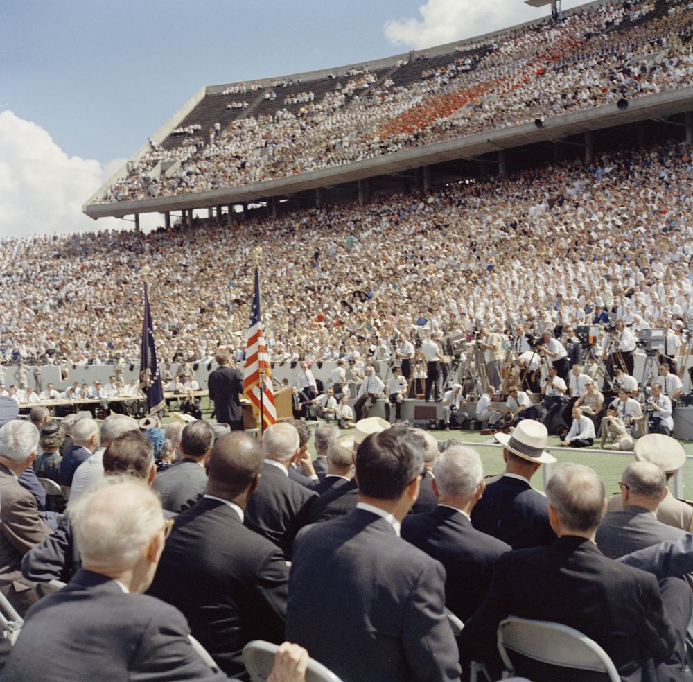 KN-C23687 12 September 1962 Inspection tour of NASA installations: Houston, Texas, motorcade and Address at Rice University, 9:34AM Please credit "White House Photographs. John F. Kennedy Presidential Library and Museum, Boston"